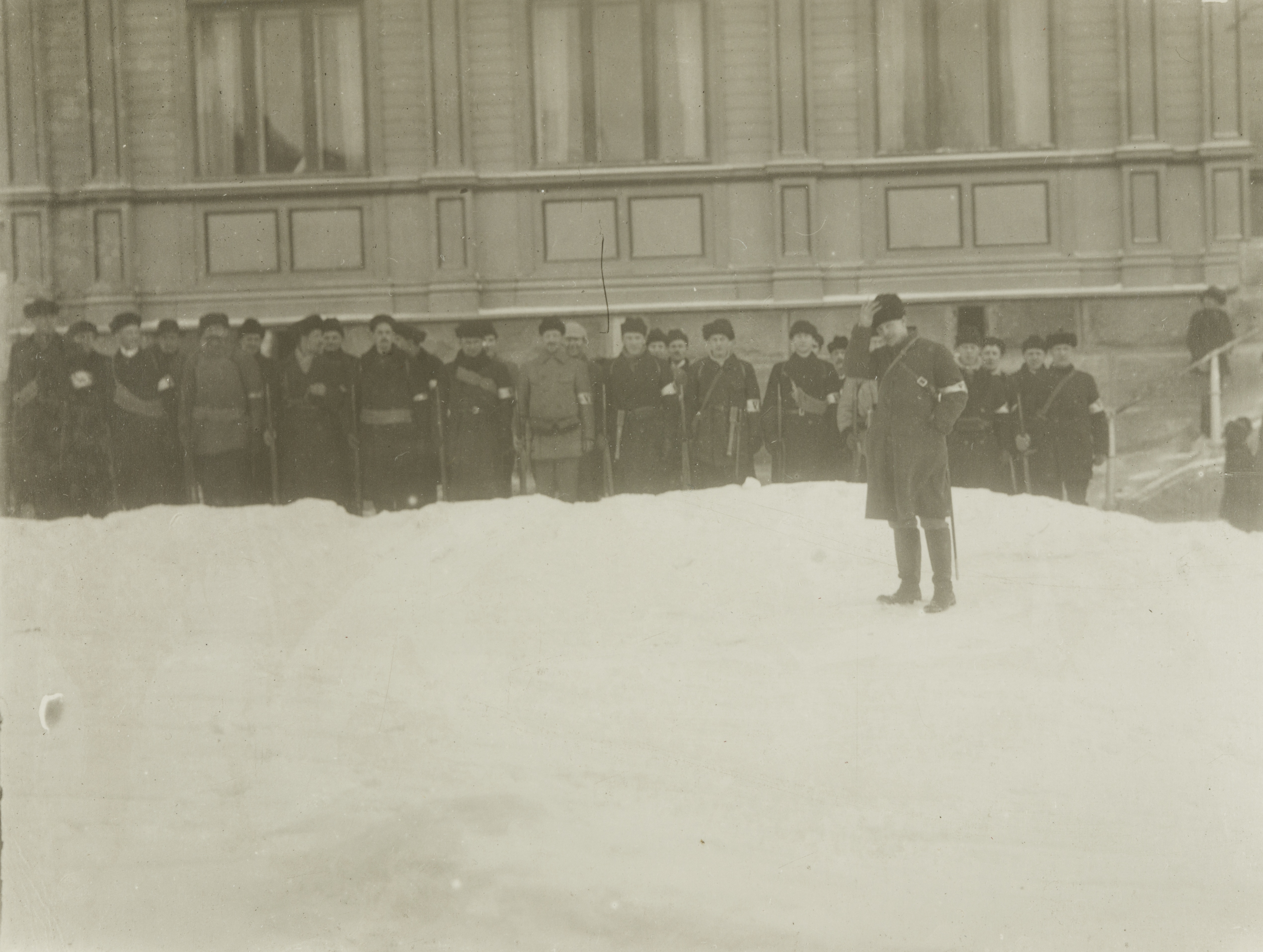 Vaasa White Guard in Kemi during the 1918 Finnish Civil War.